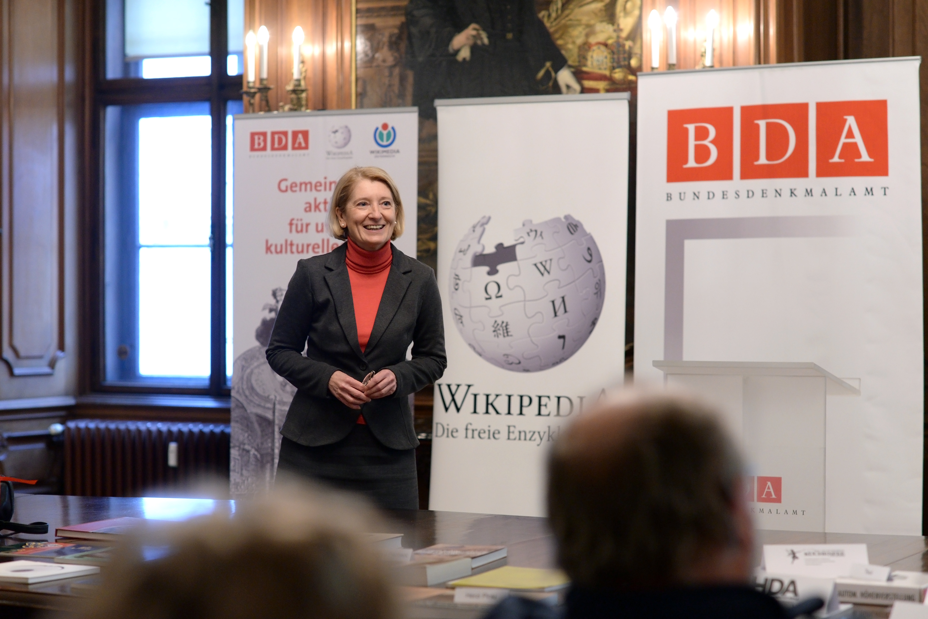 Awards presentation of the Austrian winners of Wiki Loves Earth and Wiki Loves Monuments 2014 at Bundesdenkmalamt (Ahnensaal at Schweizertrakt of Hofburg Palace in Vienna, Austria).